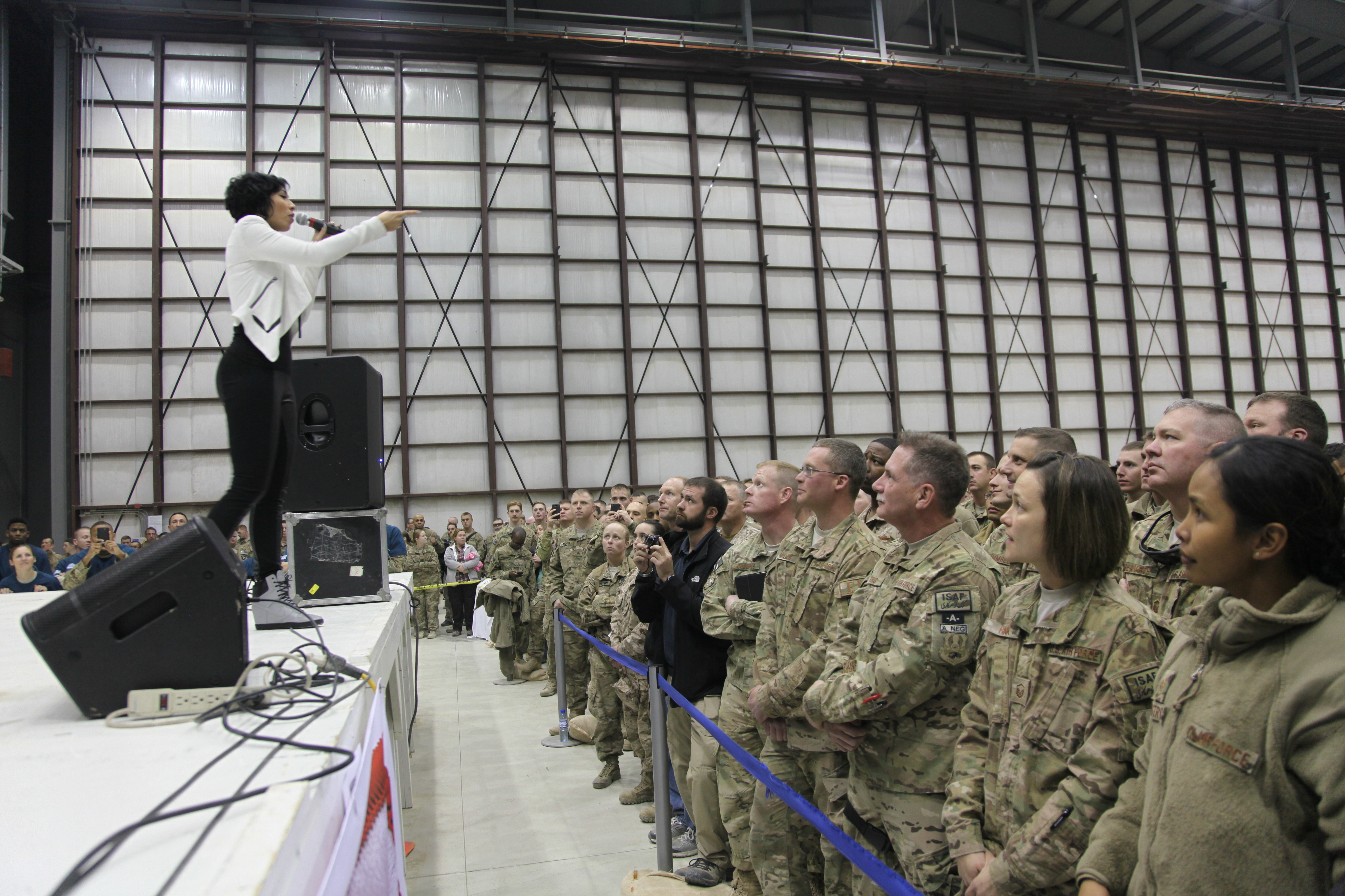 Bridget Kelly, on stage, a Grammy-winning singer and songwriter, performs for U.S. Service members during the 2013 USO Chairman's Holiday Tour at Bagram Airfield in Parwan province, Afghanistan, Dec. 9, 2013. The 2013 USO Chairman's Holiday Tour was a seven-stop, four-country troop visit led by Chairman of the Joint Chiefs of Staff U.S. Army Gen. Martin E. Dempsey. In addition to Kelly, the tour included "Duck Dynasty" stars Willie and Jep Robertson, Washington Nationals first baseman Adam LaRoche, former New England Patriots offensive tackle and three-time Super Bowl champion Matt Light, actor and comedian Thomas "Nephew Tommy" Miles and former correspondent for NBC's "The Voice" Alison Haislip.